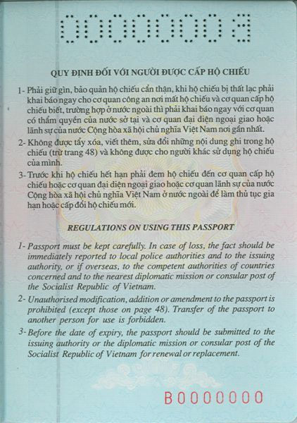 Regulations on using the Vietnamese Passport